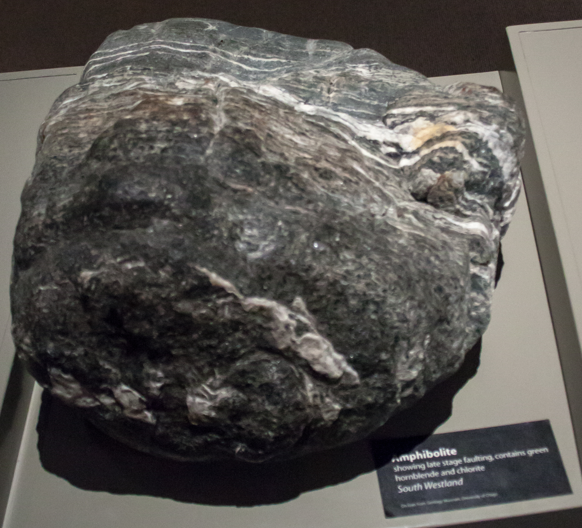 Amphibolite. Showing late stage faulting, contains green hornblende and chlorite. South Westland